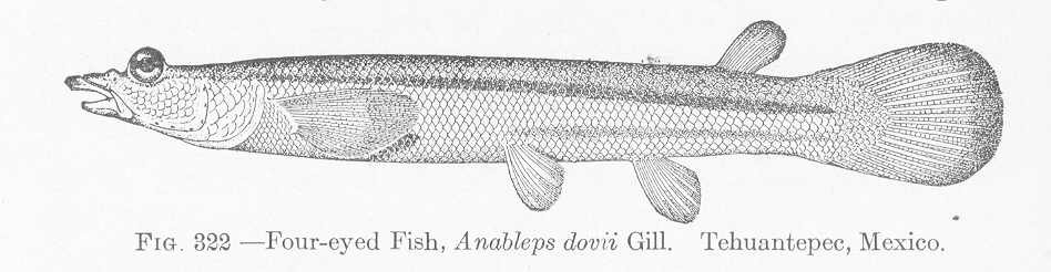 Four-eyed Fish, Anableps dovii Gill. Tehuantepee, Mexico Subject: Cyprinodontiformes Tag: Fish